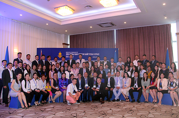 Зон Олны нам Их хурал